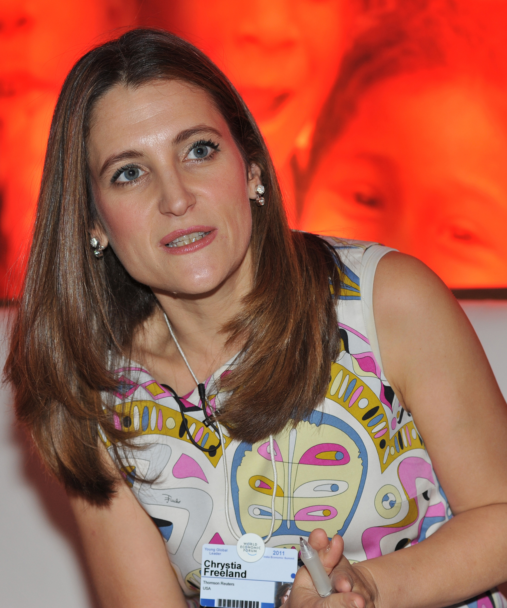 MUMBAI/INDIA, 14NOV11 - Chrystia Freeland, Digital Editor, Thomson Reuters, USA; Global Agenda Council on the United States at the "The Power and Pitfalls of Popular Media?" session during the India Economic Summit 2011 in Mumbai, India, 12-14 November, 2011. Copyright World Economic Forum ( / Eric Miller